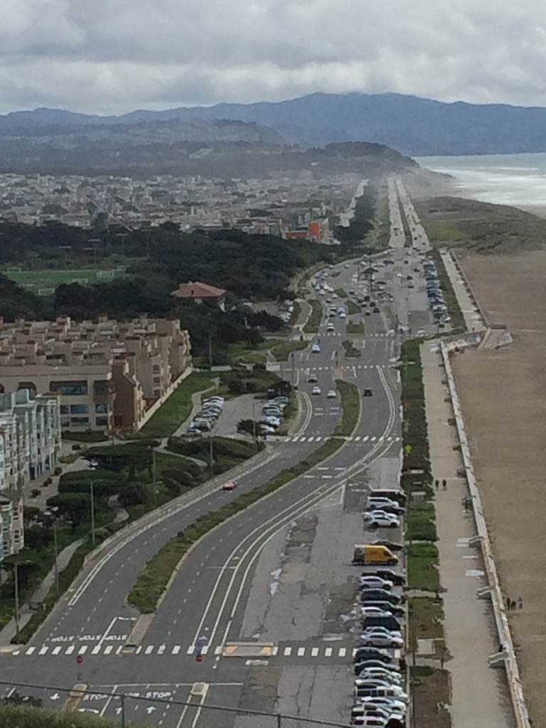 The Great Highway, San Francisco, California, looking south from Sutro Heights. The Pacific Ocean is to the right and Golden Gate Park to the left.